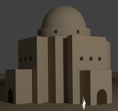 Reconstruction of the 9th century church of Dongola, which used to be the largest church in the Makurian kingdom. Based on Wlodzimierz Godlewski (2013): "Dongola - ancient Tungul", p. 11.